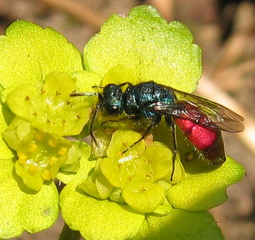 Chrysis ignita on Chrysosplenium alternifolium